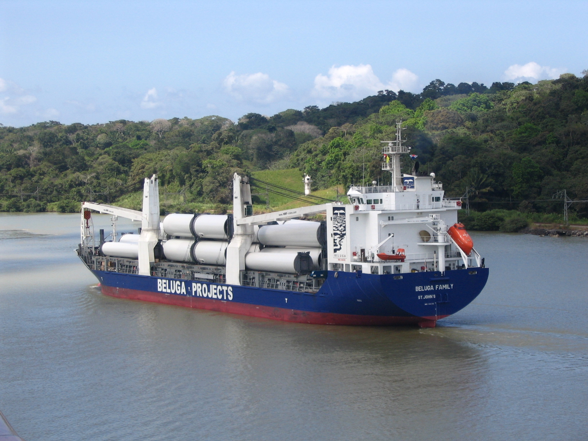 The Beluga Family on a northbound transit of the Panama Canal from the Pacific Ocean to the Caribbean Sea. The Beluga Family is a heavy lift multipurpose dry cargo vessel registered in Antigua and Barbuda. IMO Number: 9381392 MMSI Number: 305133000 Callsign: V2CX2 Length: 138.0 m Beam: 21.0 m